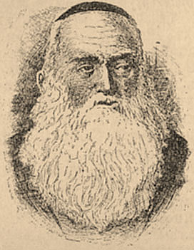 Isaac Abrabanel (1437—1508), Illustration from Brockhaus and Efron Jewish Encyclopedia (1906—1913)